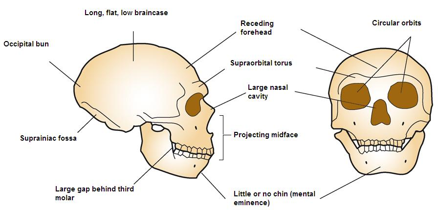 Translated from French Wikipedia File:Neandertal caractères crâniens.jpg and added additional detail